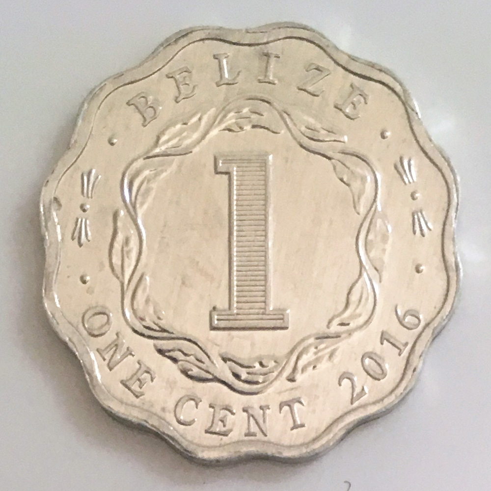 Reverse side of a Belize 1 cent coin minted in 2016